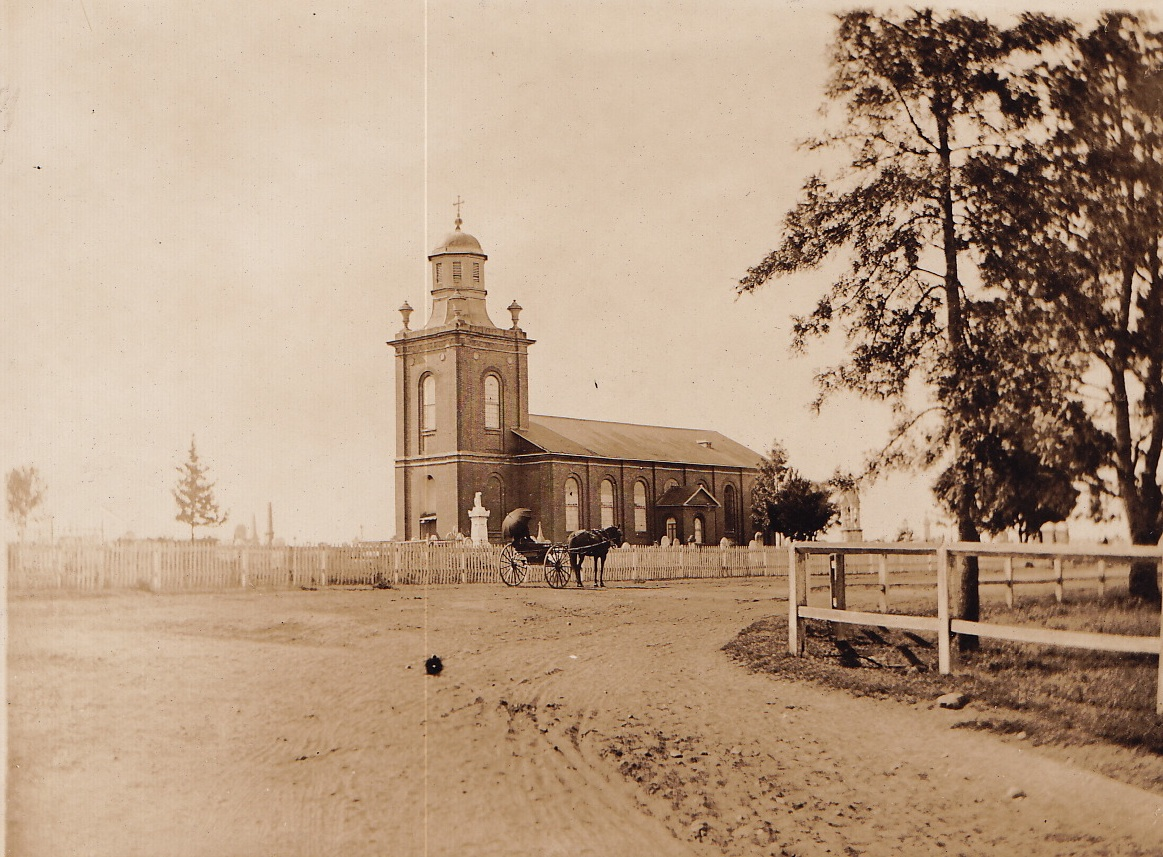 collections/view/id/3305/title/Early Australian Architecture - Frank Walker